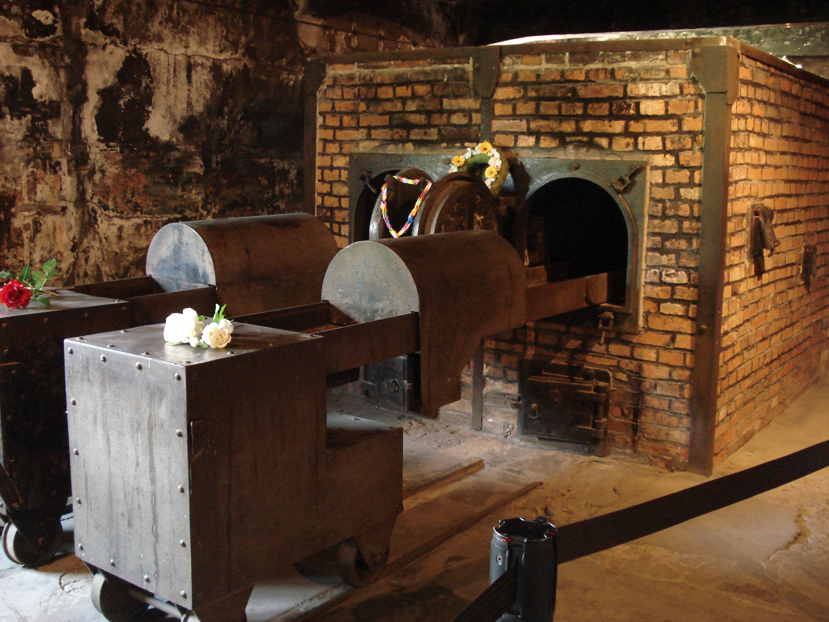 Crematorium in Auschwitz I